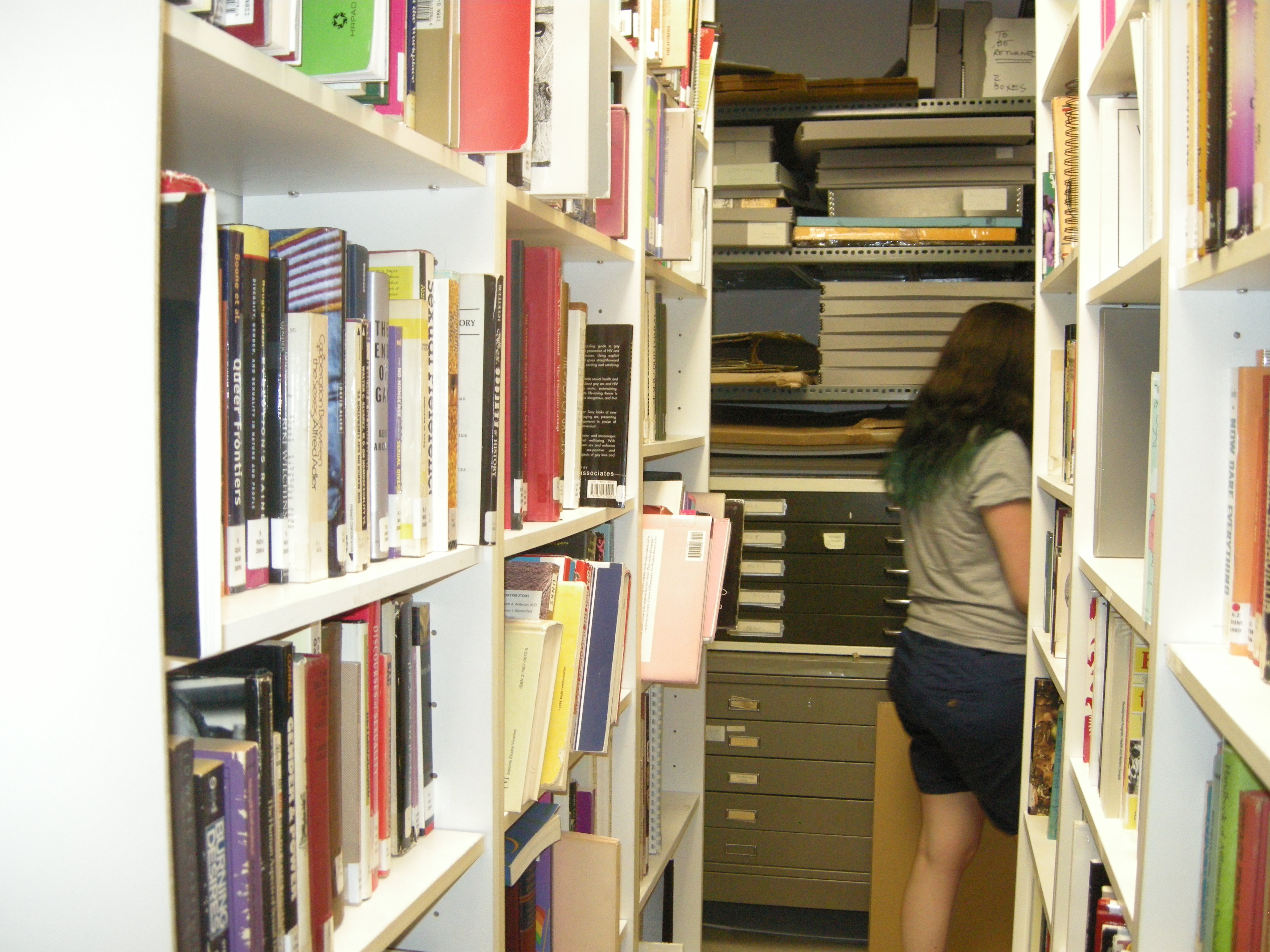 Library material at the Canadian Lesbian and Gay Archives